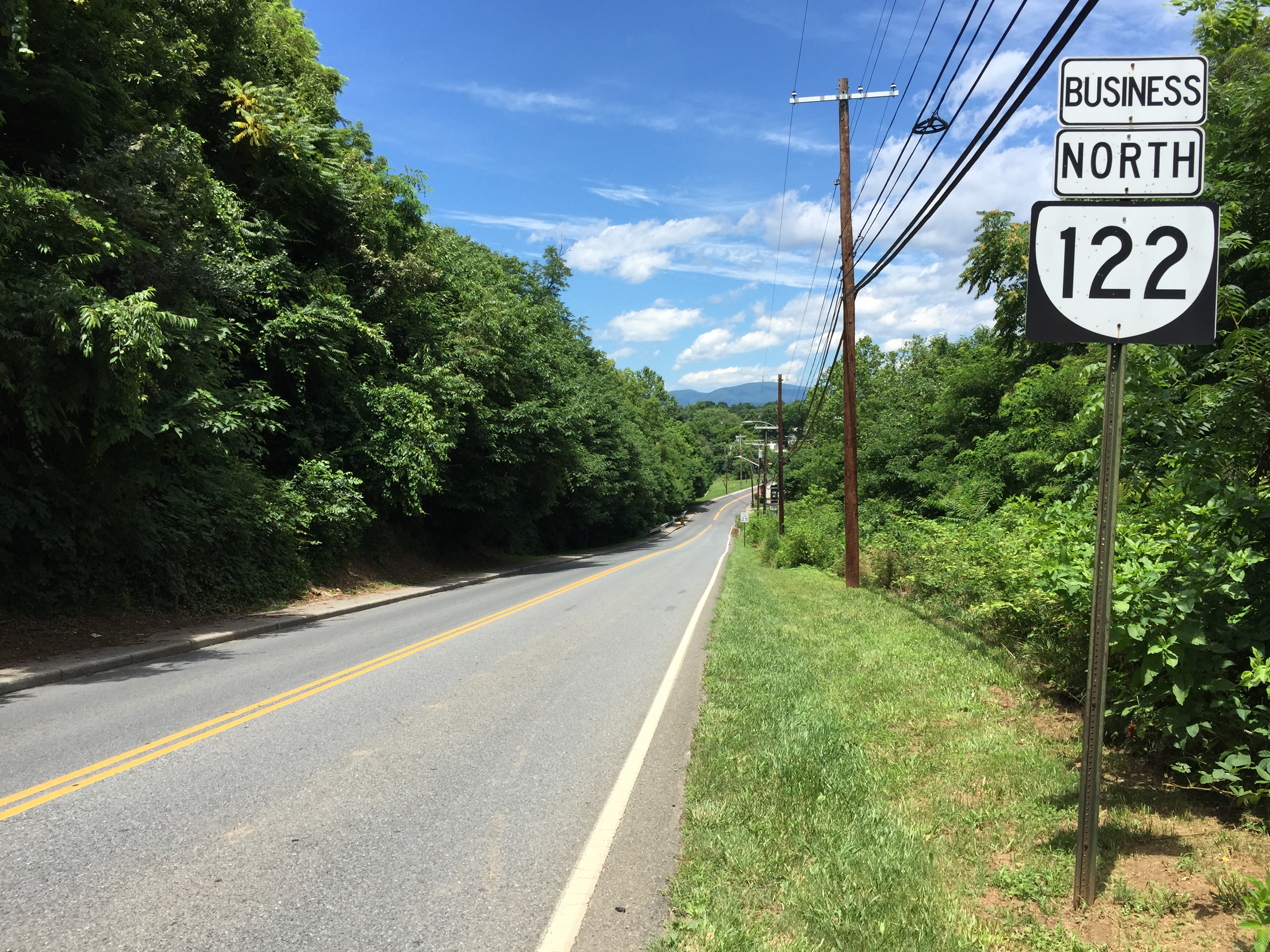 View north along Virginia State Route 122 Business (Burks Hill Road) between Old Mill Road and King Street in Bedford, Bedford County, Virginia